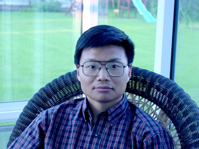 Weinan E